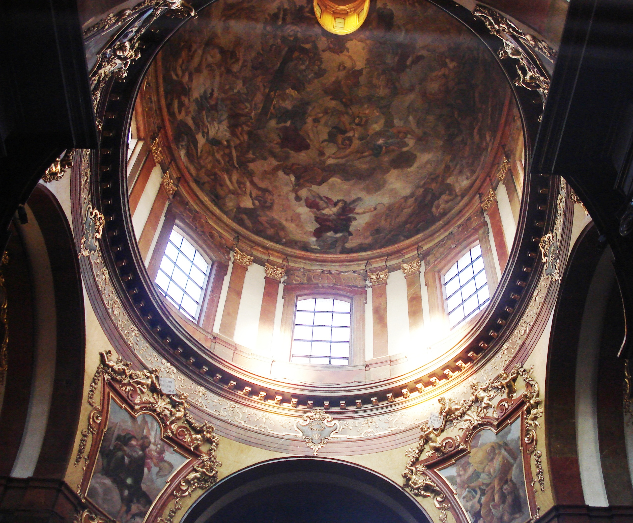 Dome of the church St Francis Seraphin in Old Town, Prague. The fresque is by V.V. Reiner and represents the Last Judgement